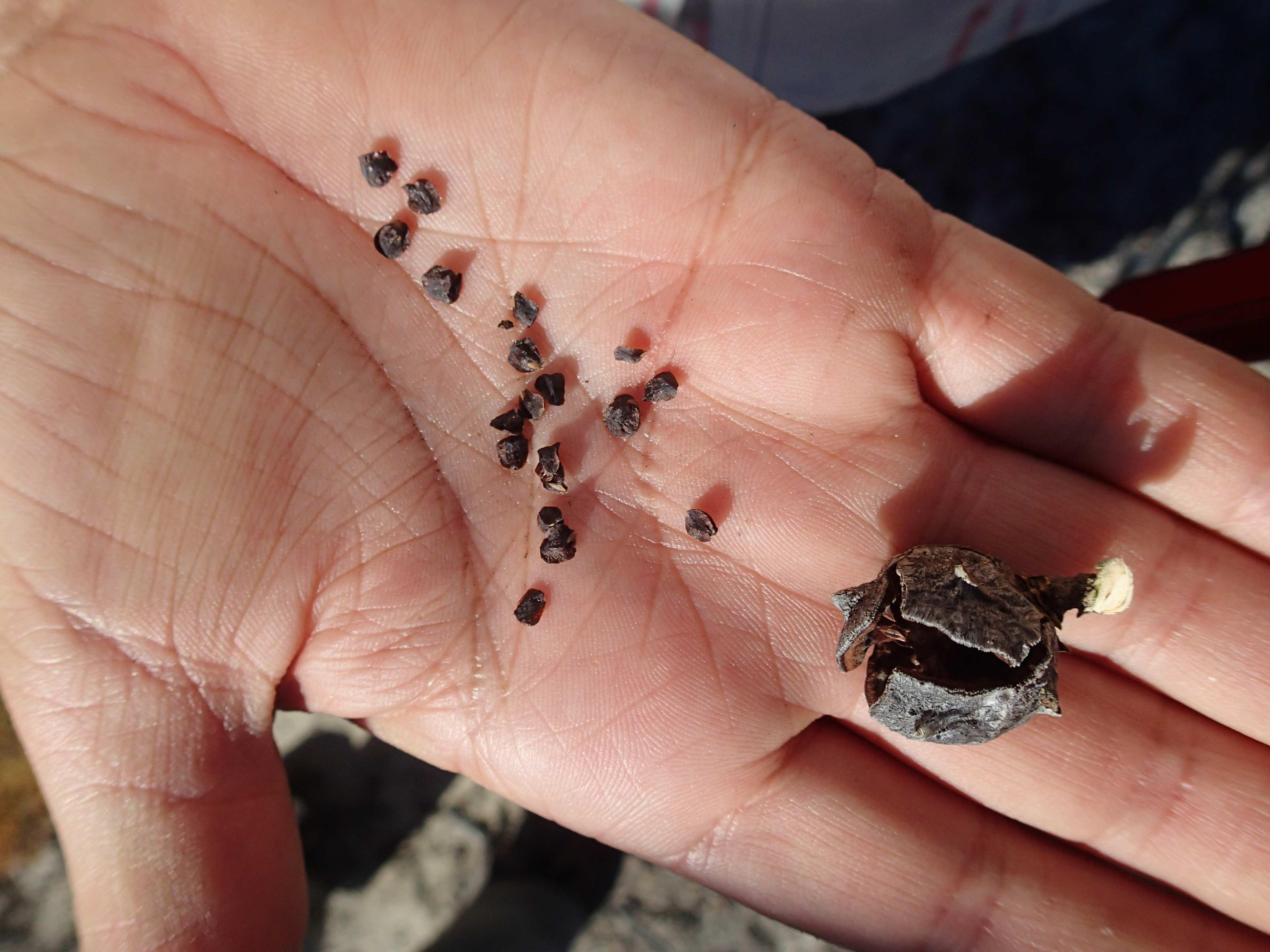 Photo by Connie Rutherford/USFWS.